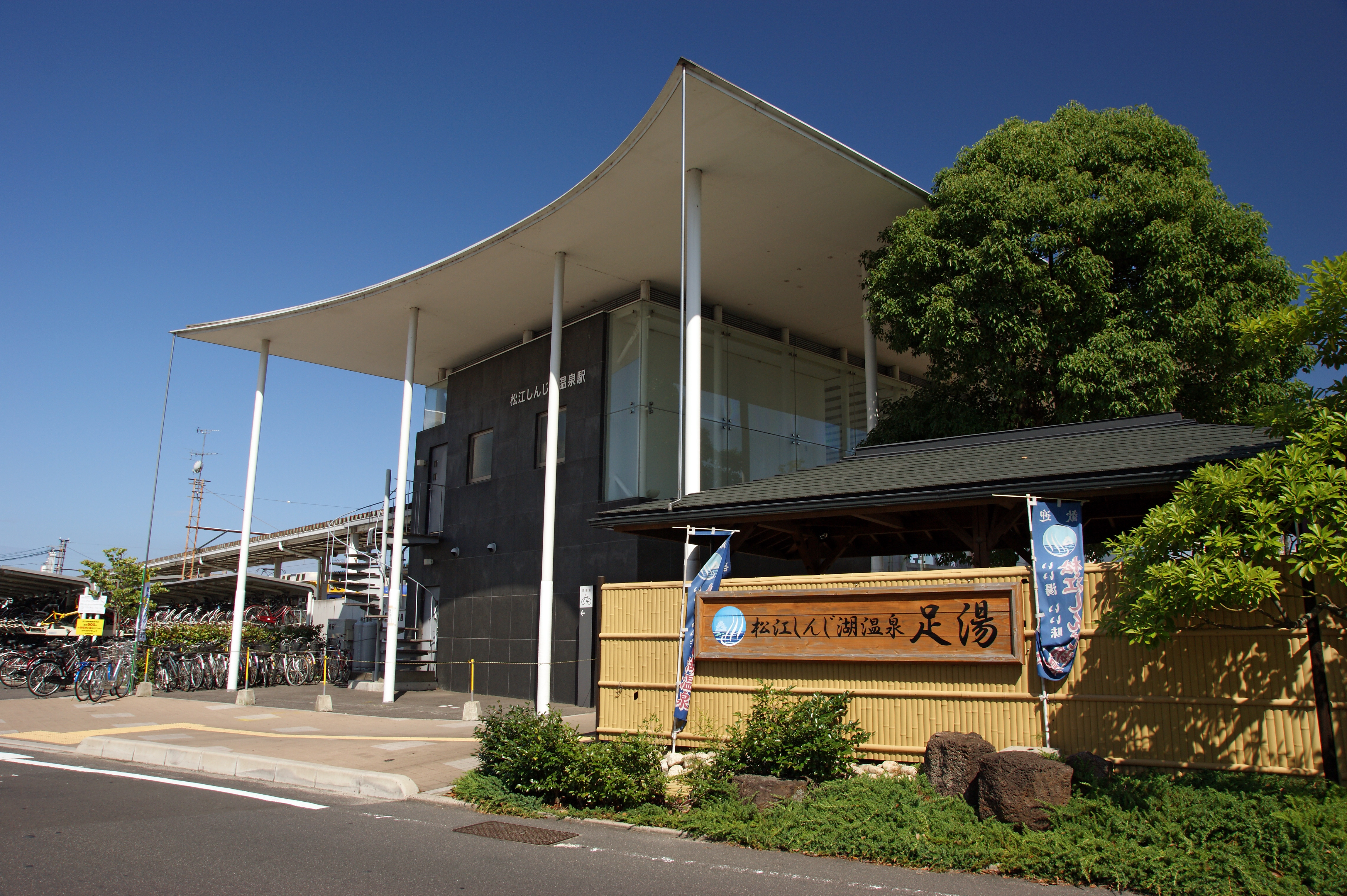 Matsue-shinjiko-onsen Station in Matsue, Shimane prefecture, Japan